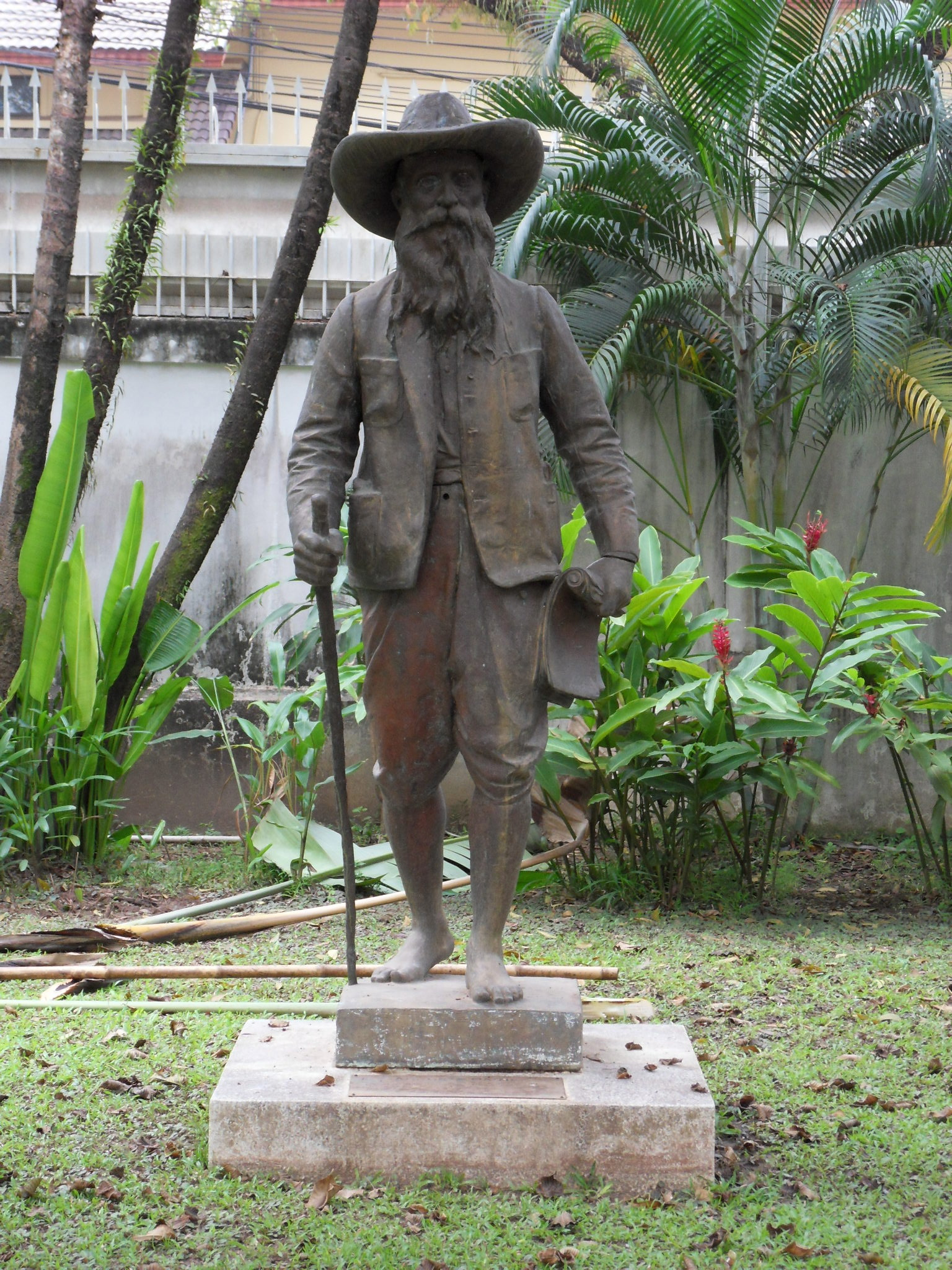 Statue of Auguste Pavie in the French Embassy in Vientiane, Laos